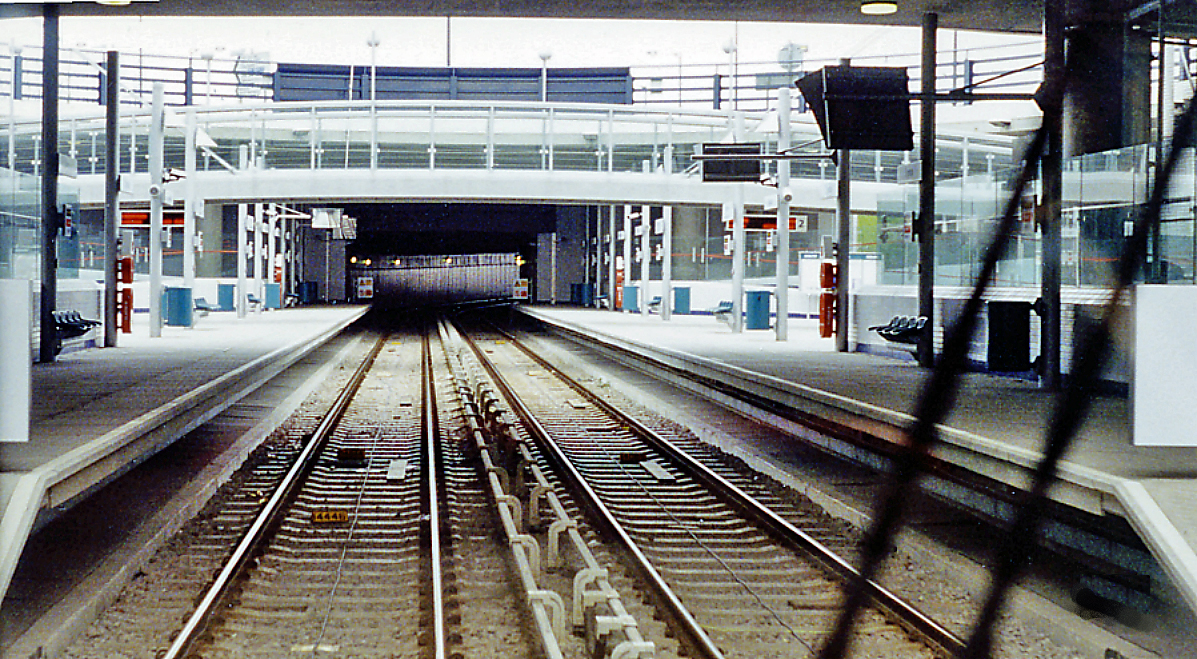 Cyprus DLR station, from eastbound train, 1994. View eastward, towards Beckton on the Docklands Light Railway Poplar - Beckton branch, running under Royal Albert Dock Road along this stretch, opened 28/3/94 - one month before this photograph.